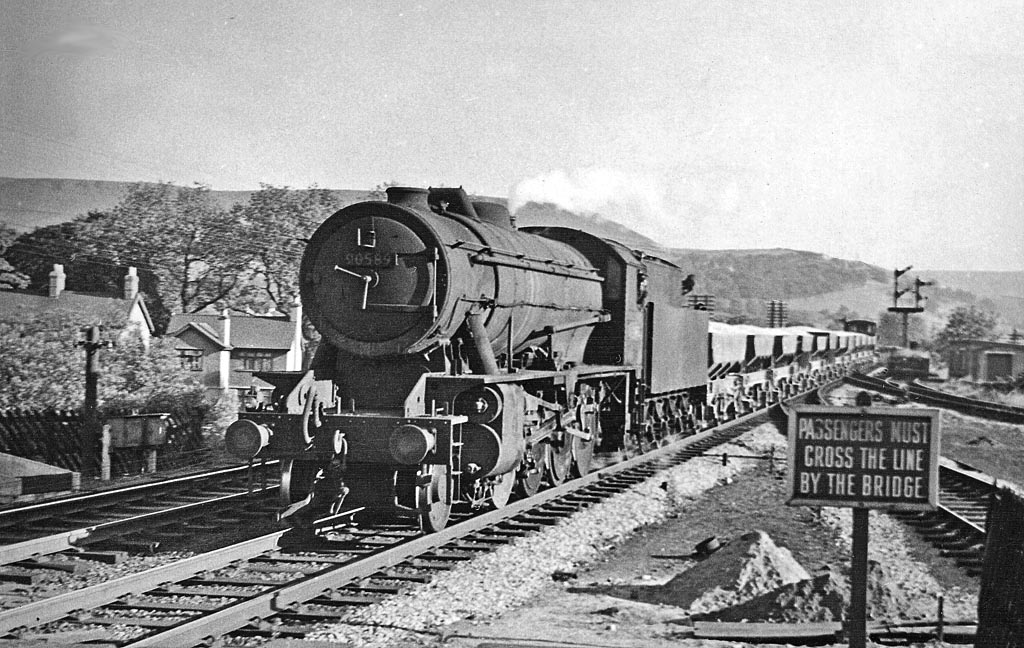 Down ballast train at Chapel-en-le-Frith Central Station. View southward, towards Peak Forest, Matlock and Derby; ex-Midland main line, Derby - Matlock - Chinley - Manchester. This station at Chapel-en-le-Frith was closed on 6/3/67 when the whole Peak Line (Matlock - Manchester) was closed, but the line Peak Forest - Chinley has been kept open to serve the limestone quarries. The locomotive is ex-War Department 2-8-0 No. 90539.